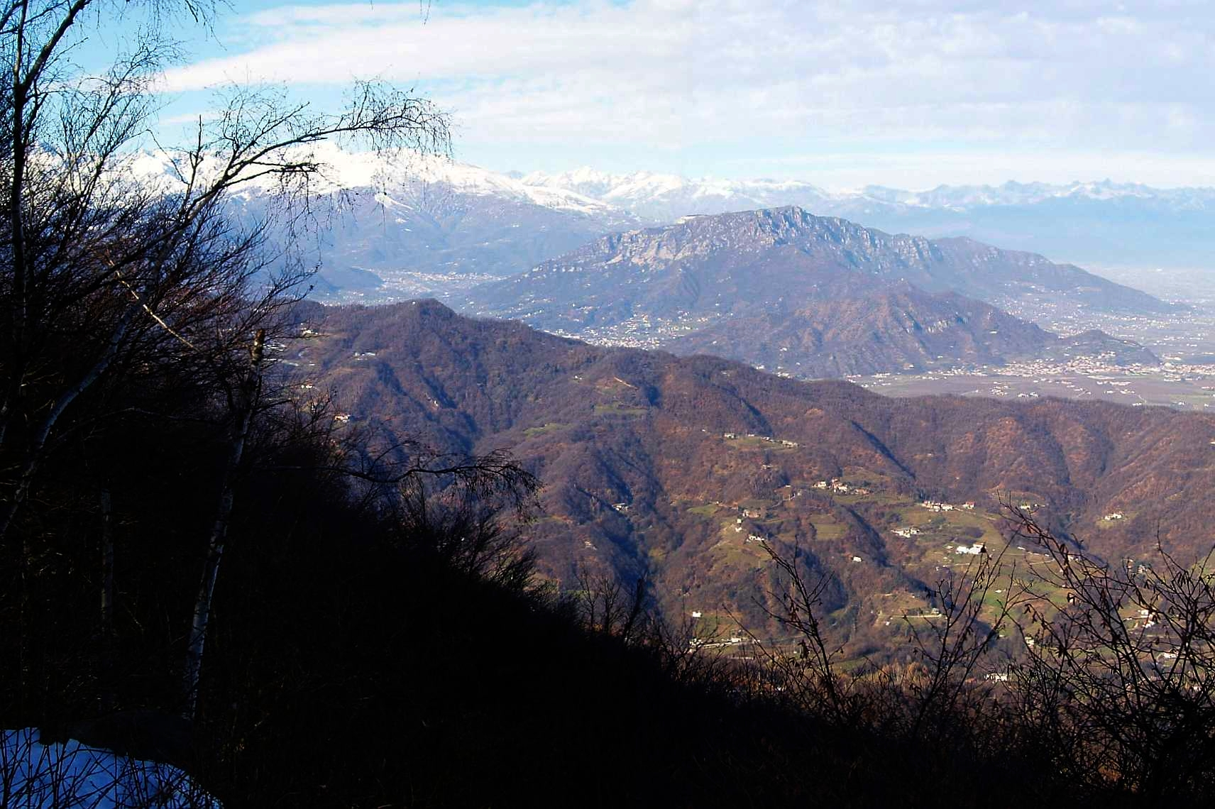 Mount Bracco from San Bernardo Vecchio (CN, Italy)